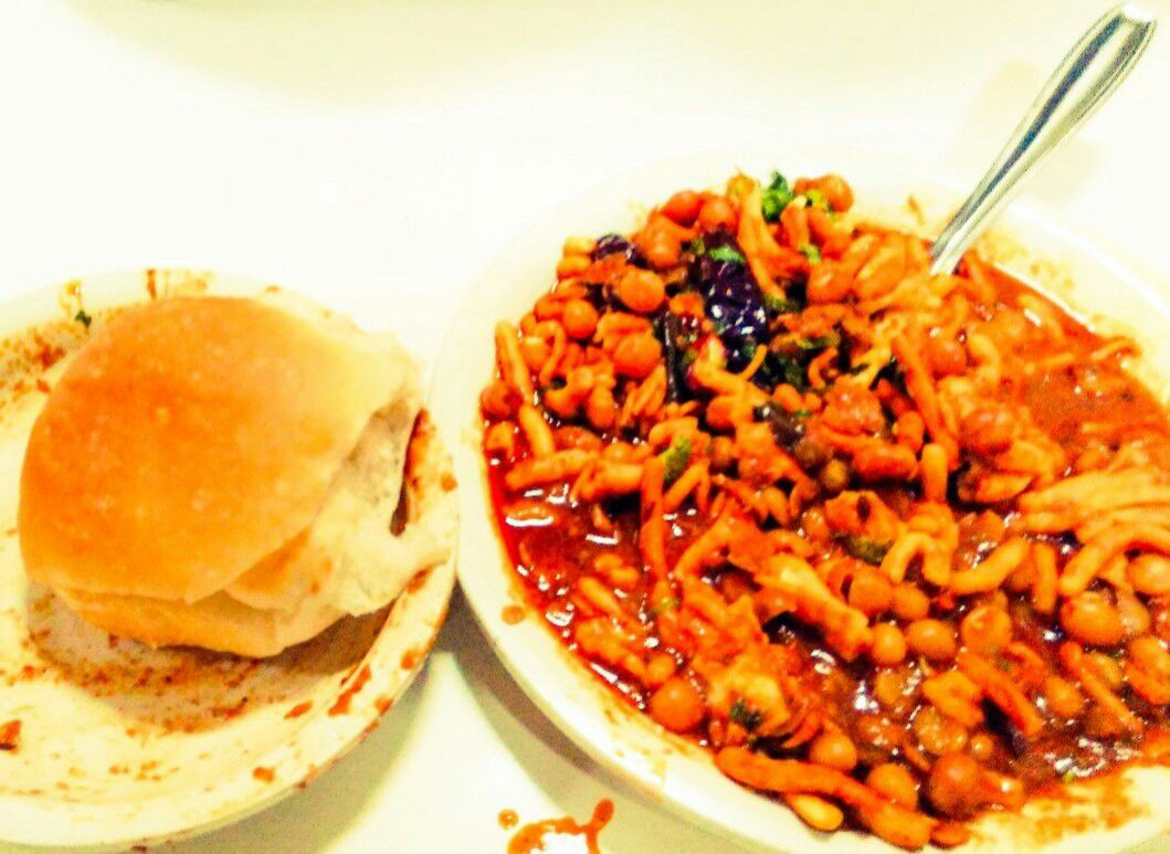 Misal Pav, the most common and spicy Maharashtrian dish made with sprouted pulses is one of the tastiest.